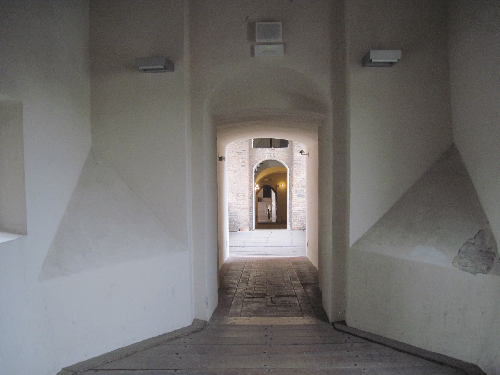 Coperta road, Ferrara